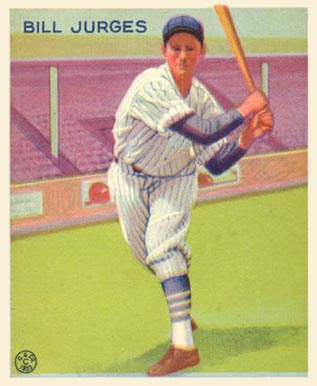 1933 Goudey baseball card of Billy Jurges of the Chicago Cubs #225. PD-not-renewed.